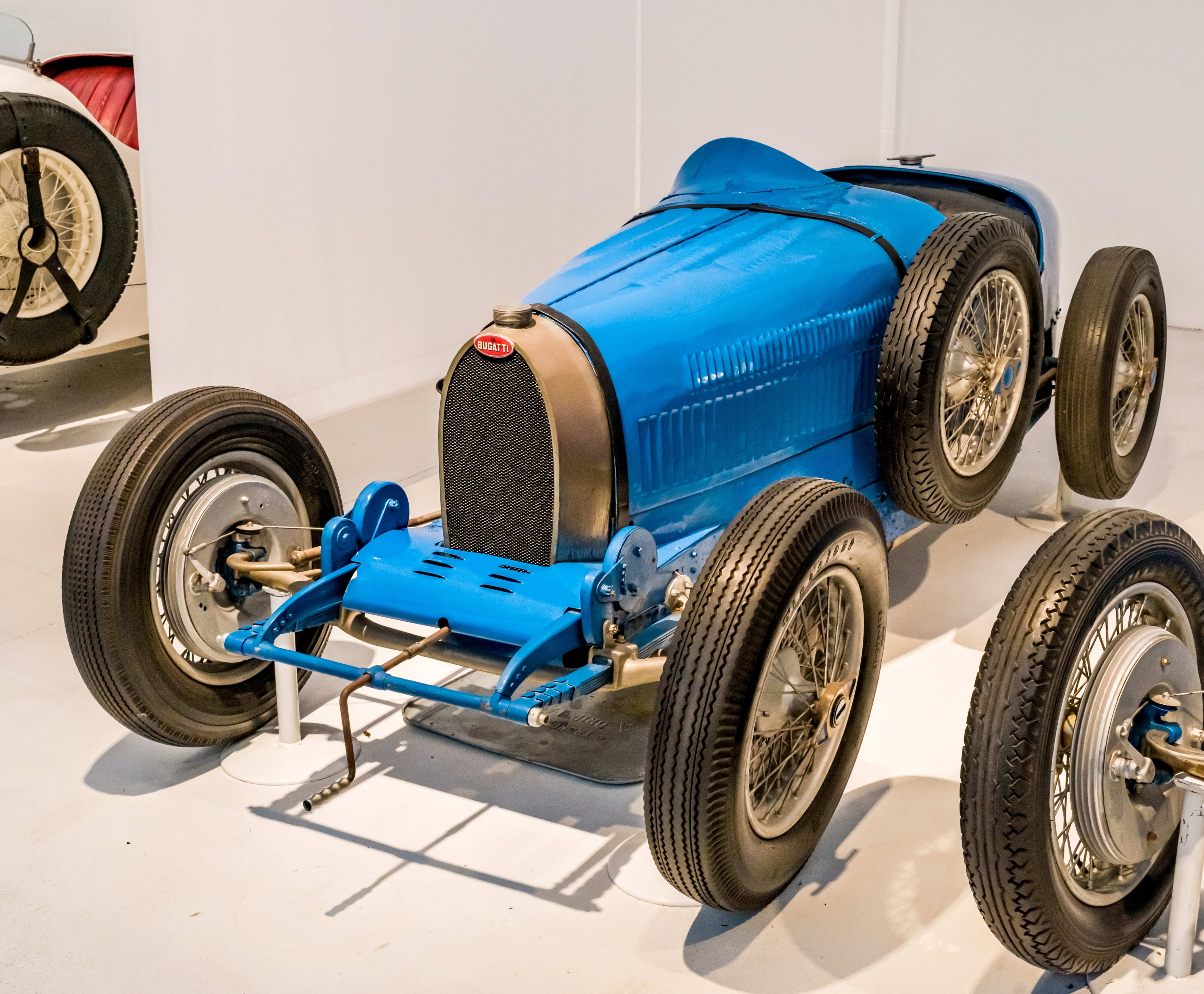 pictures from the Cité de l’Automobile – Musée National – Collection Schlump in Mulhouse, France ptictures from the 10. may 2018